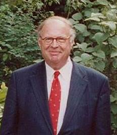 Dutch historian Henk Wesseling at NIAS Wassenaar, 2002